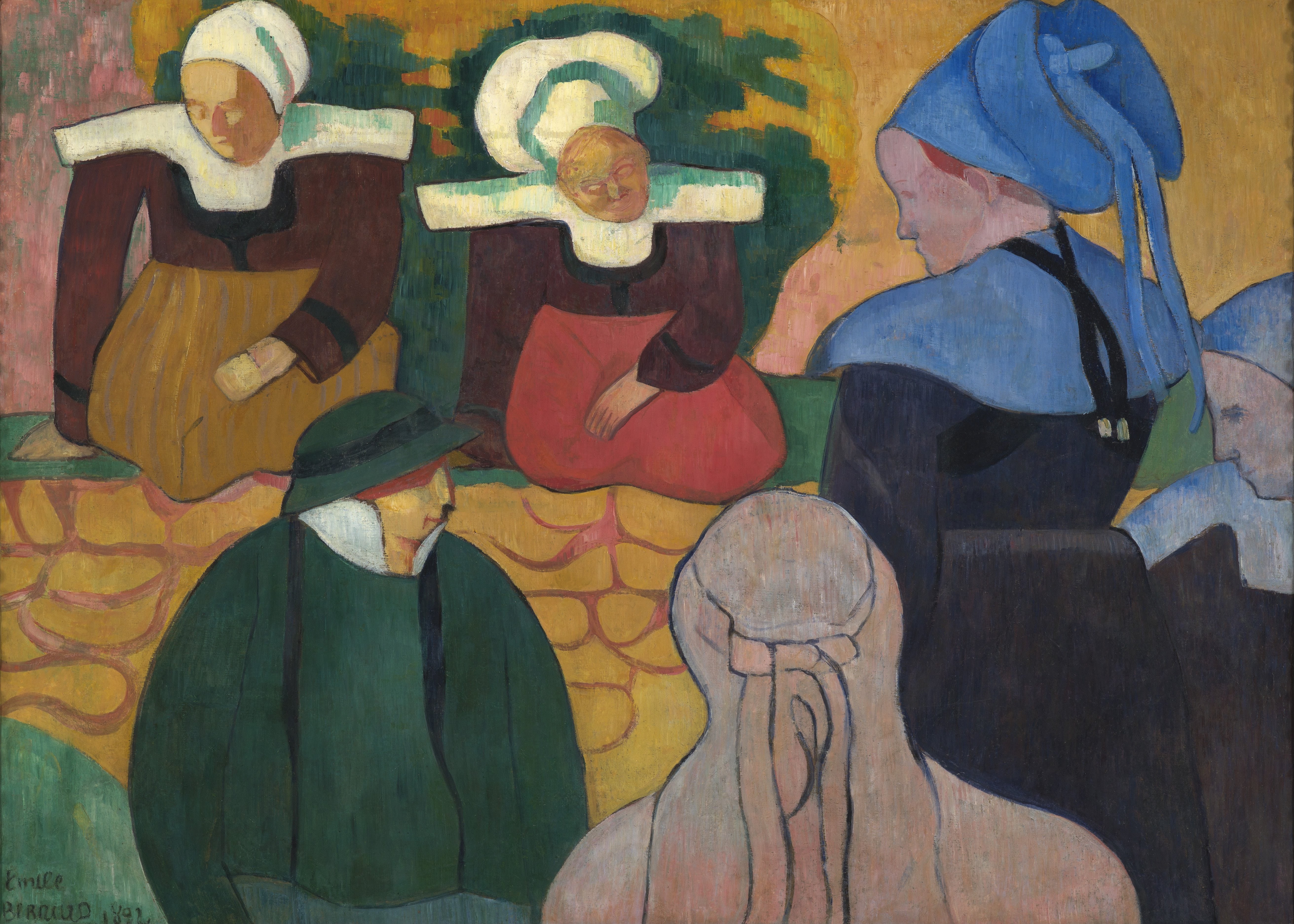 Breton Women at a Wall. Oil on cardboard, 32 7/8 x 45 1/2 inches Indianapolis Museum of Art, accession number 1998.172